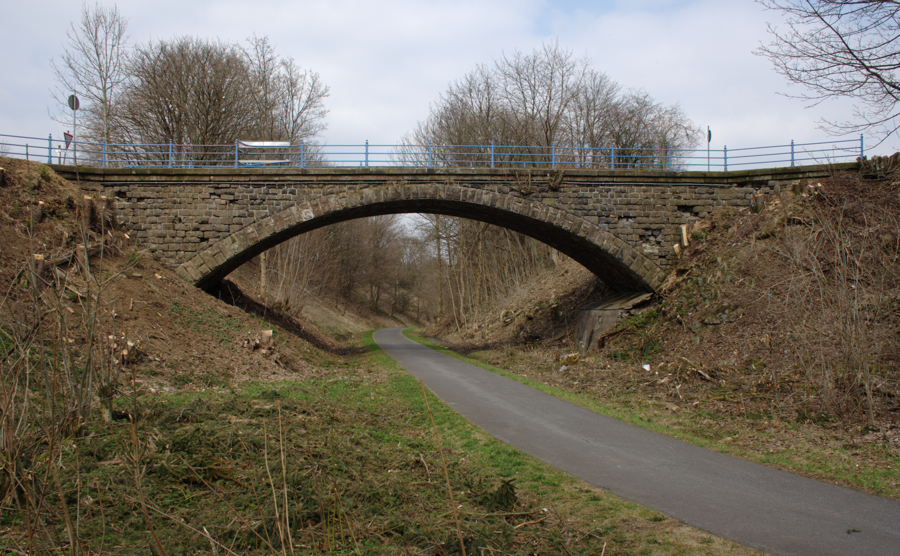 Bridge in Hartmannshain, Grebenhain, Hesse, Germany